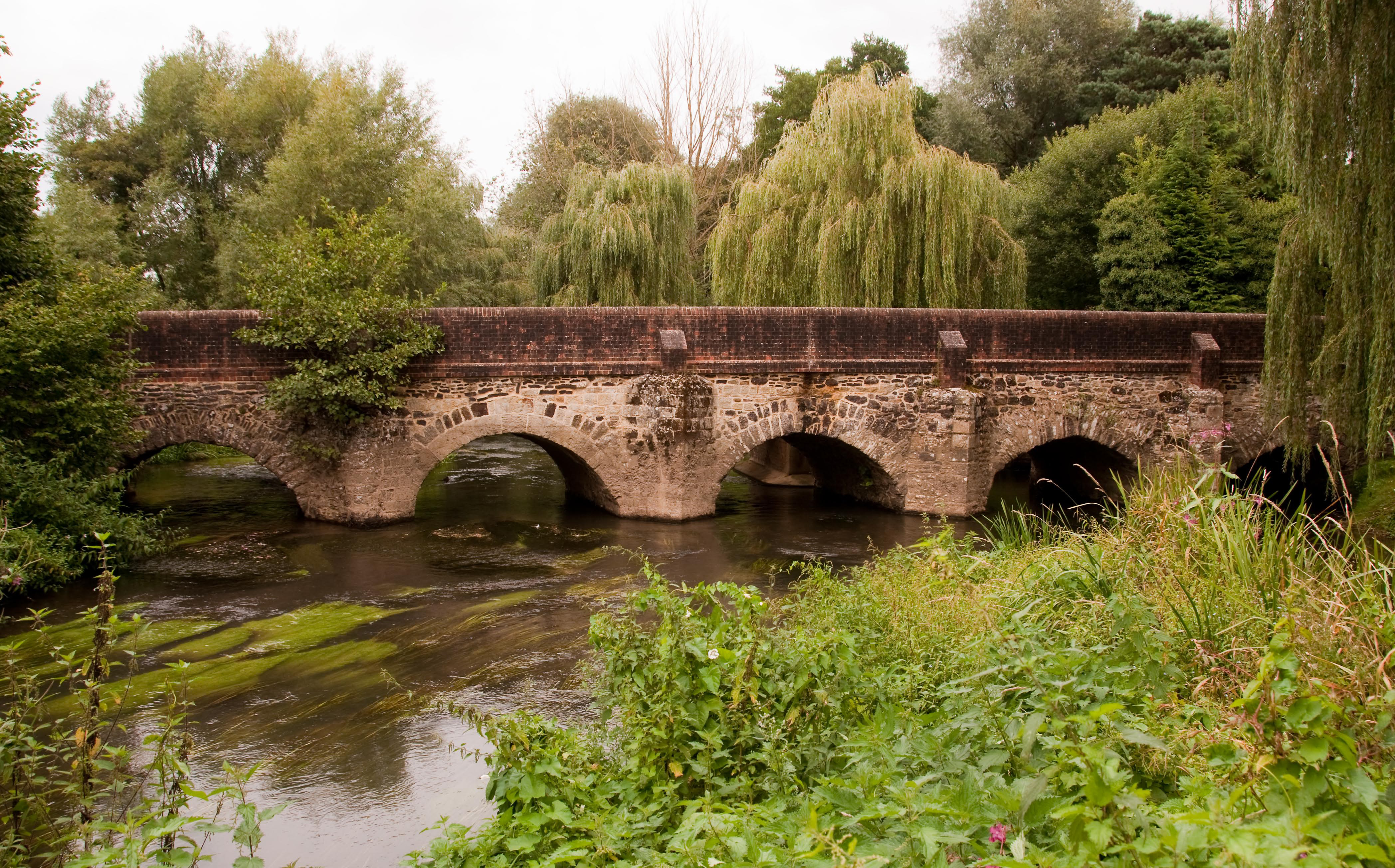 Elstead Bridge from the Southwest showing the Old Bridge, which takes the West bound Traffic over the River Wey. Late Summer. Characteristic weed streaming below.